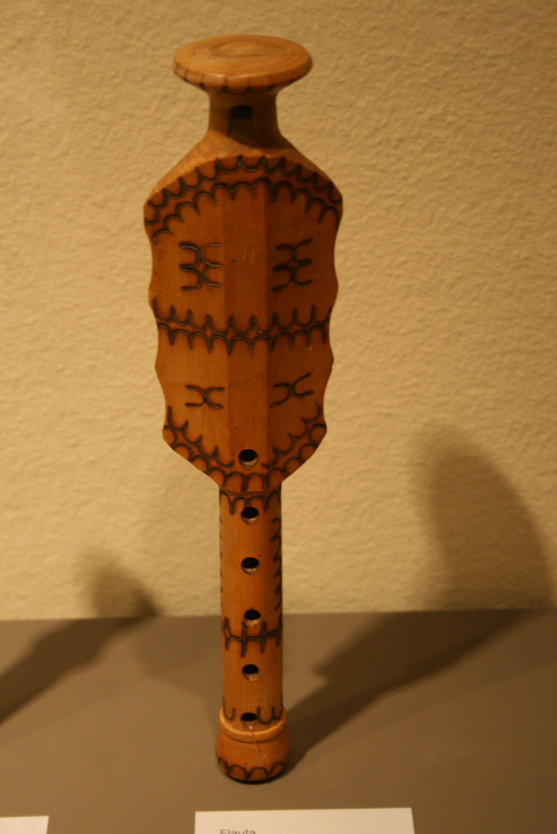 Folkloric recorder from Cyprus. Ca. 1985-1995